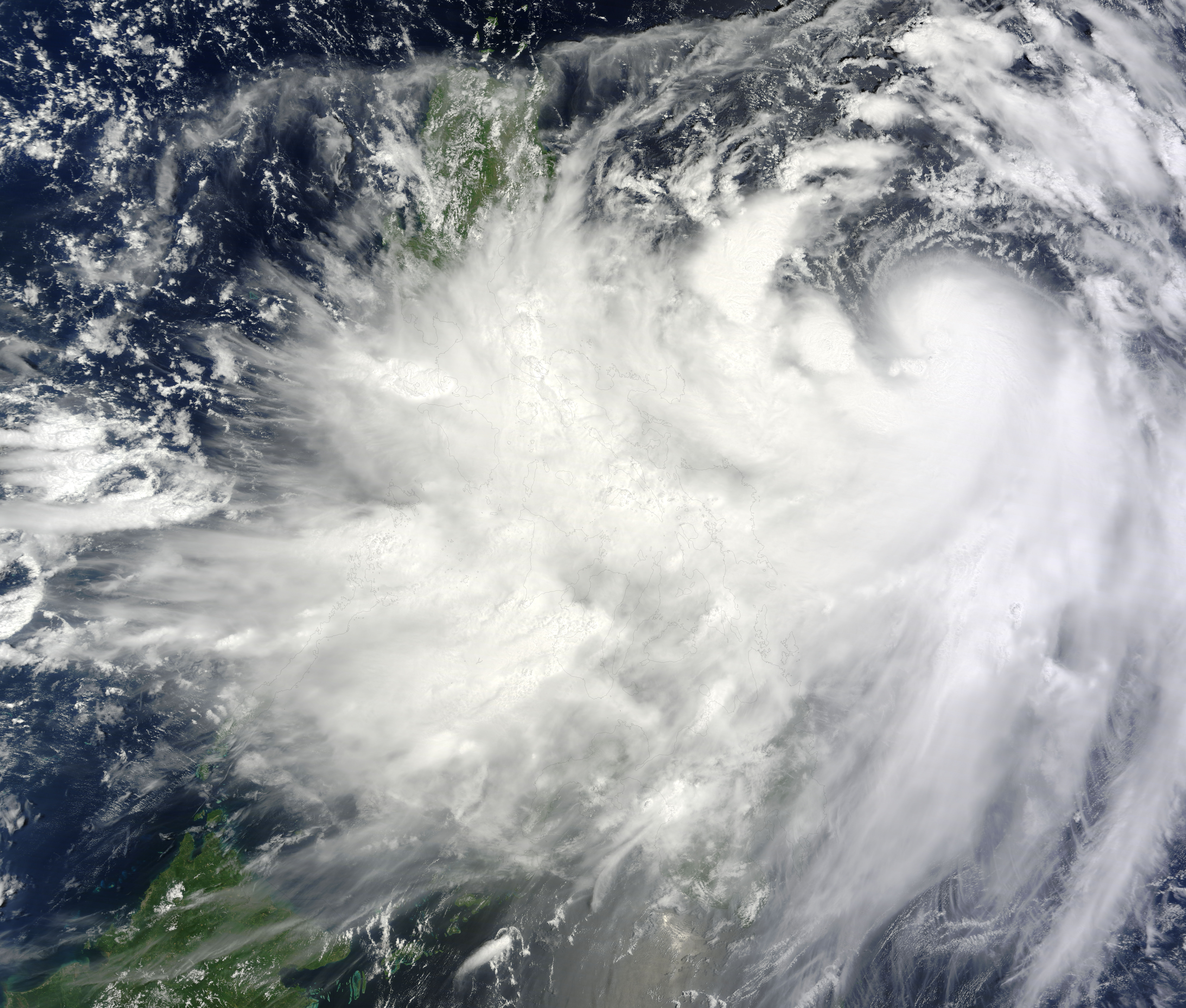 Tropical Storm Kalmaegi (15W) approaching the Philippines